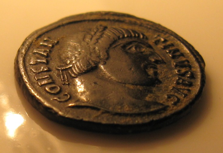 the portrait of Caius Flavius Valerius Constantinus on Roman coin. the inscription around the portrait is "Constantinus". Itamar Atzmon's collection